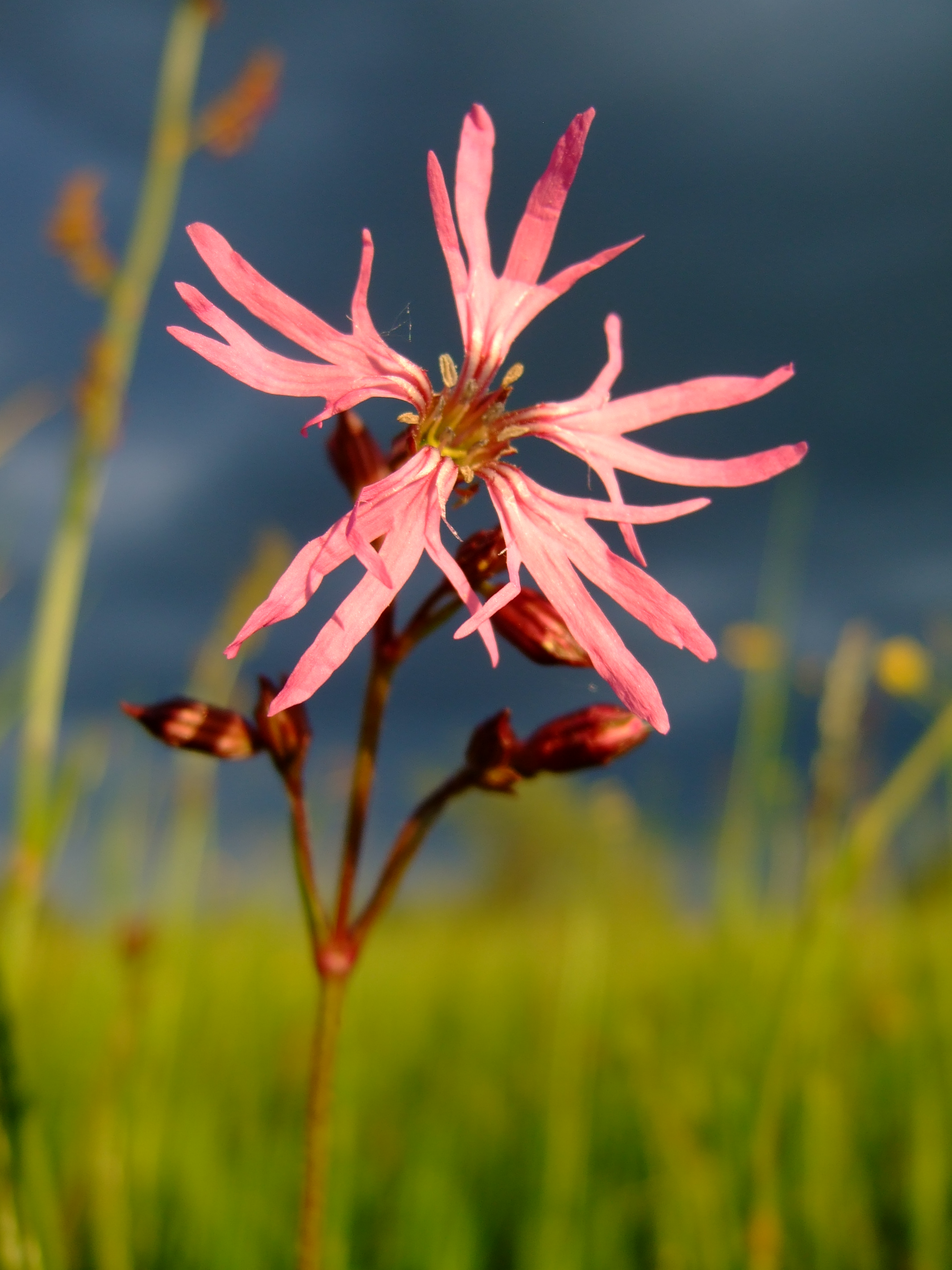 Ragged Robin in Kirchwerder, Hamburg.